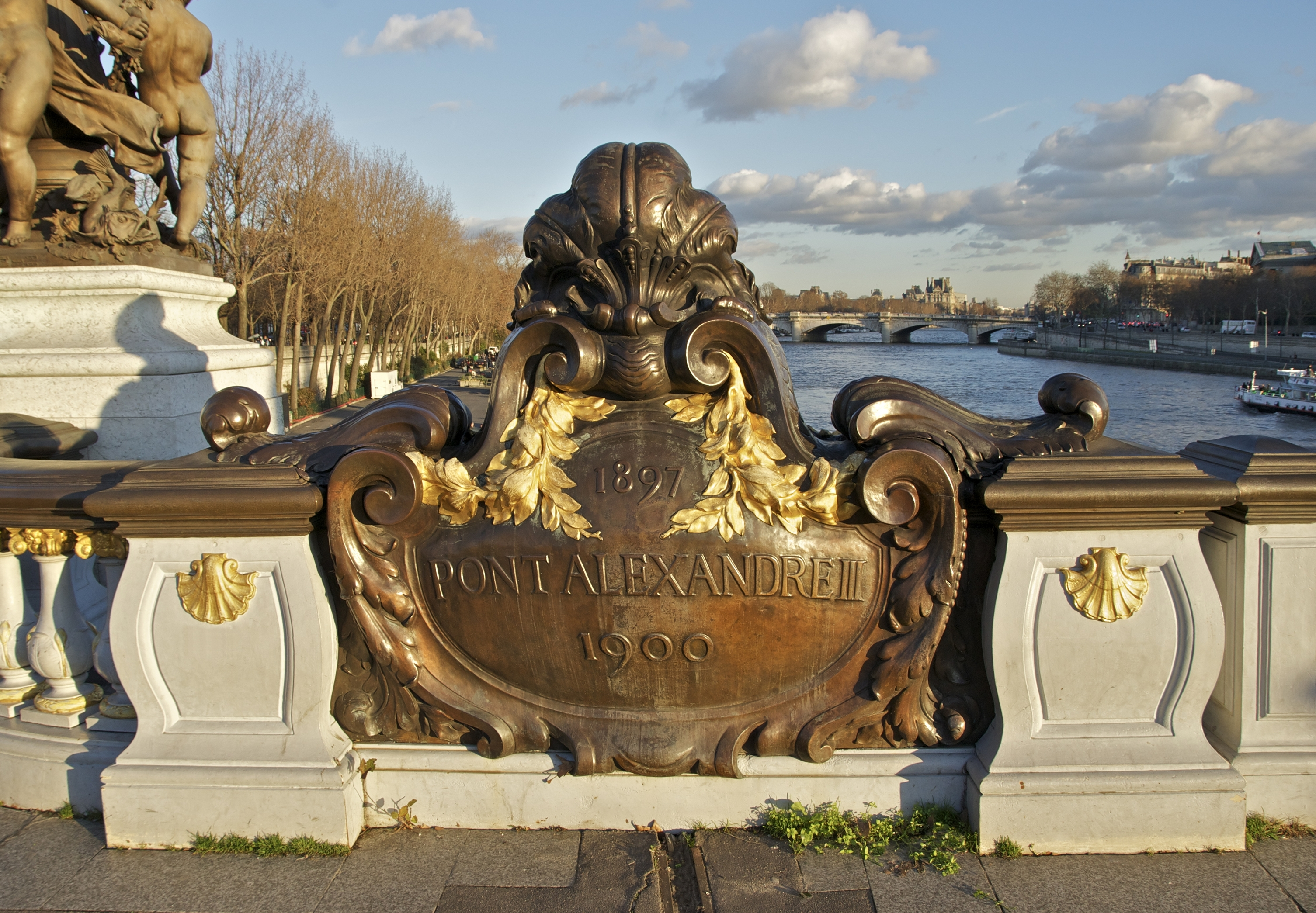 Cartouche, hammered copper, part of the railing of the Pont Alexandre III in Paris.